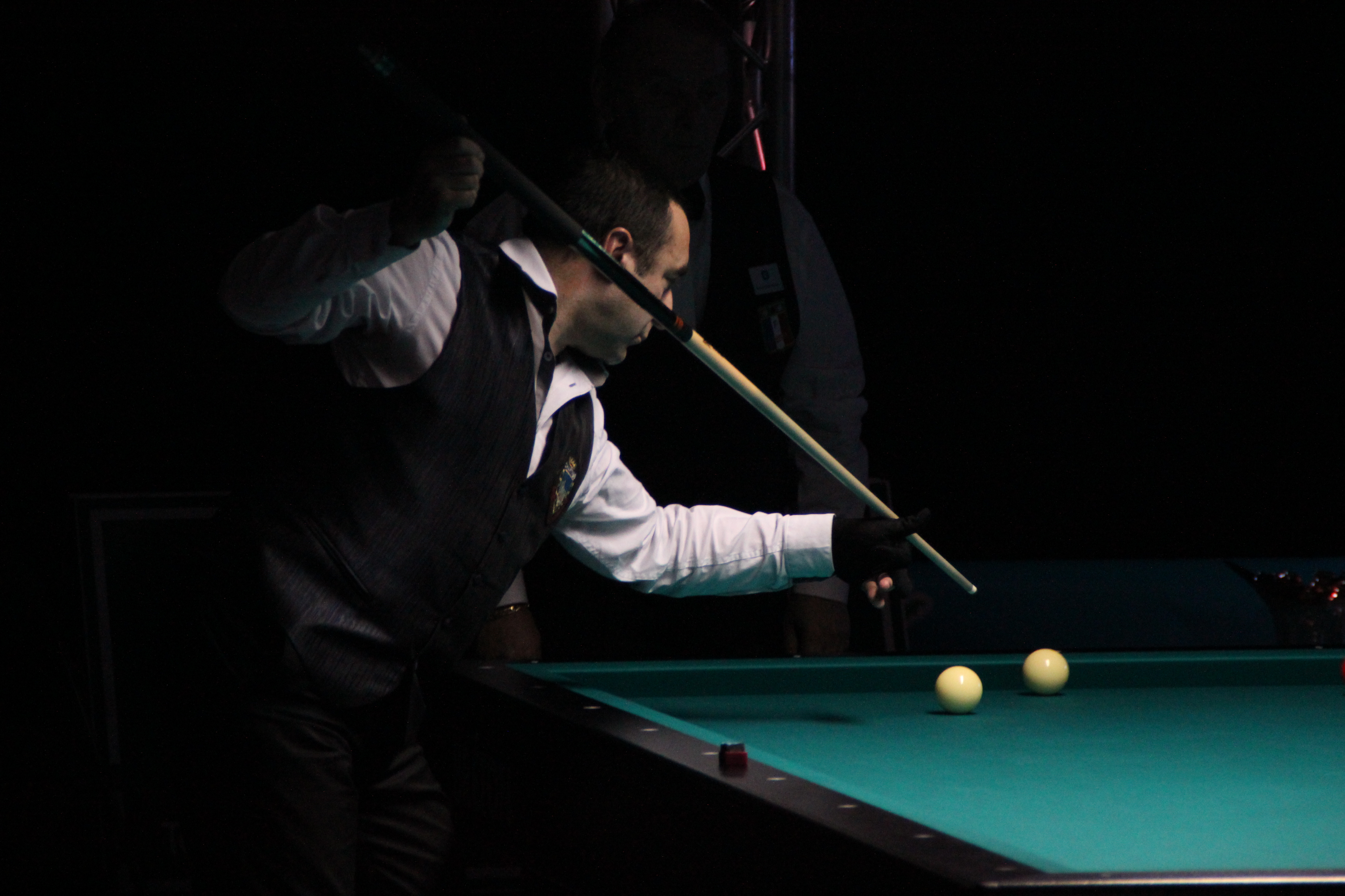 French championships of carom billiards 2012 in Voisins-le-Bretonneux. - Google Maps - Google Earth